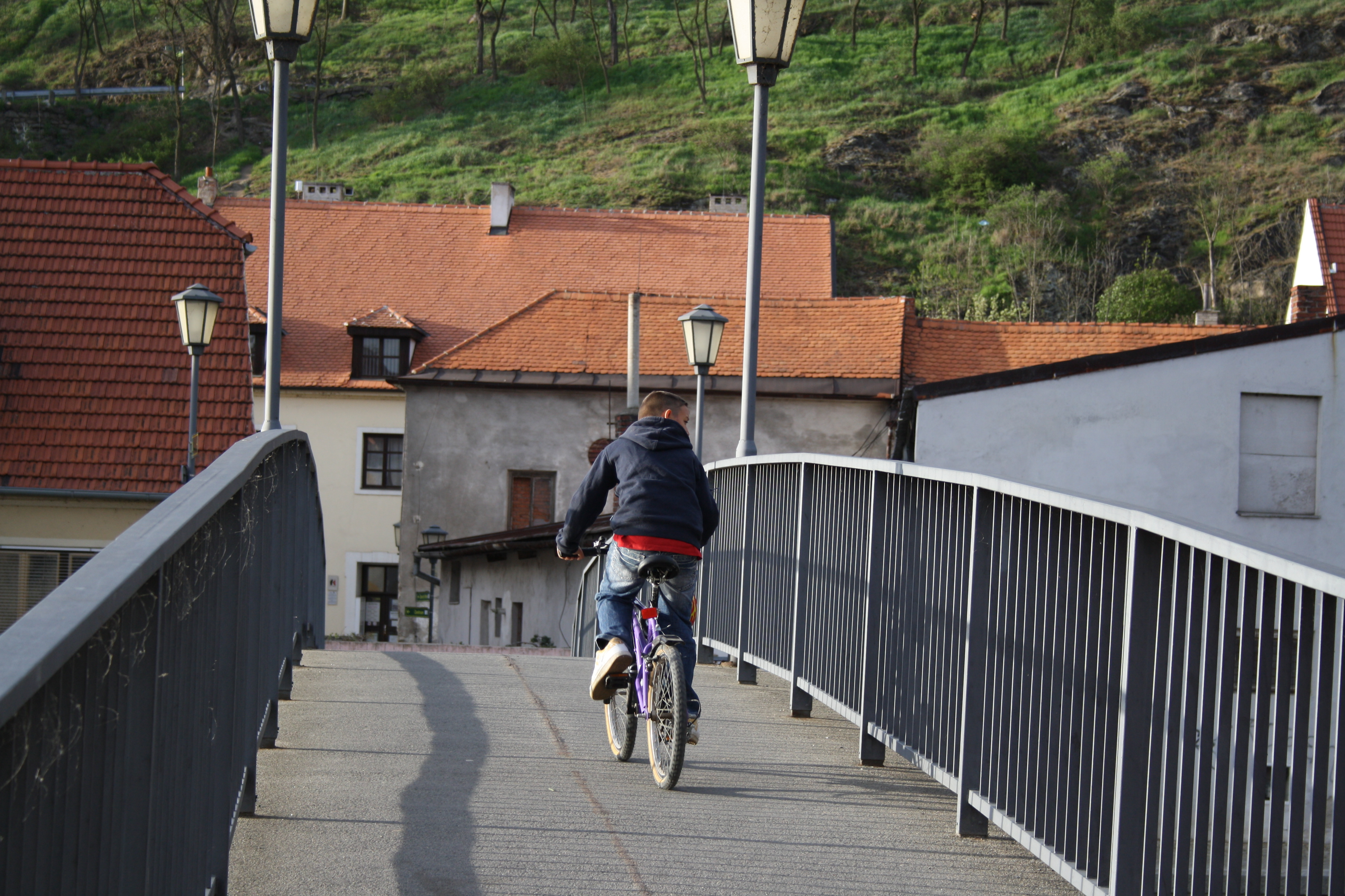 Biker at bikeway 401 in Třebíč, Czech Republic.